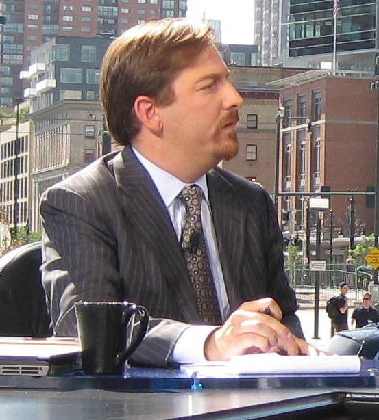 Governor of Colorado and Former Governor of Virginia on MSNBC with Chuck Todd